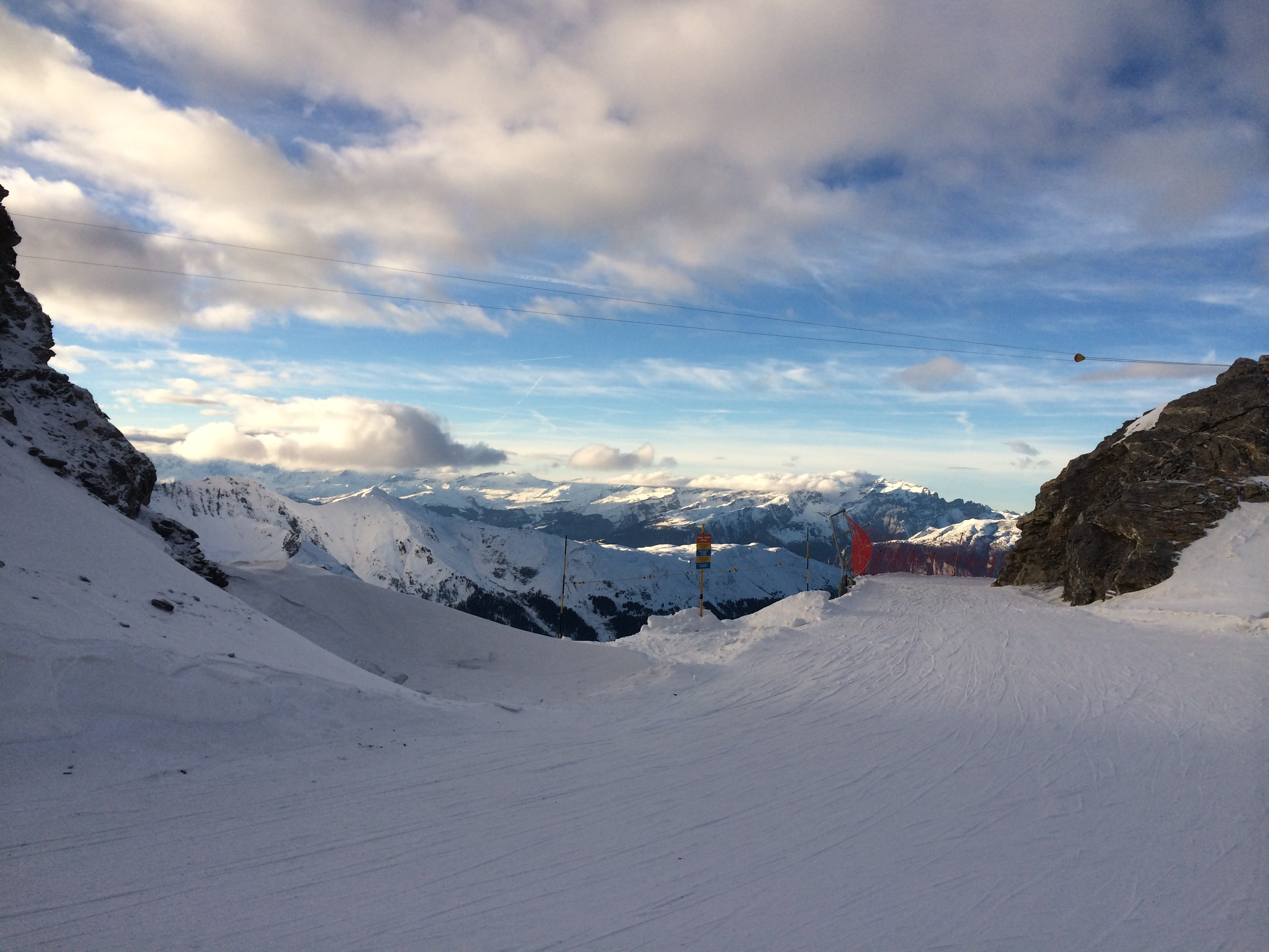 ski slope at Gredigs Fürggli pass below Parpaner Rothorn, between Arosa and Lenzerheide/Switzerland